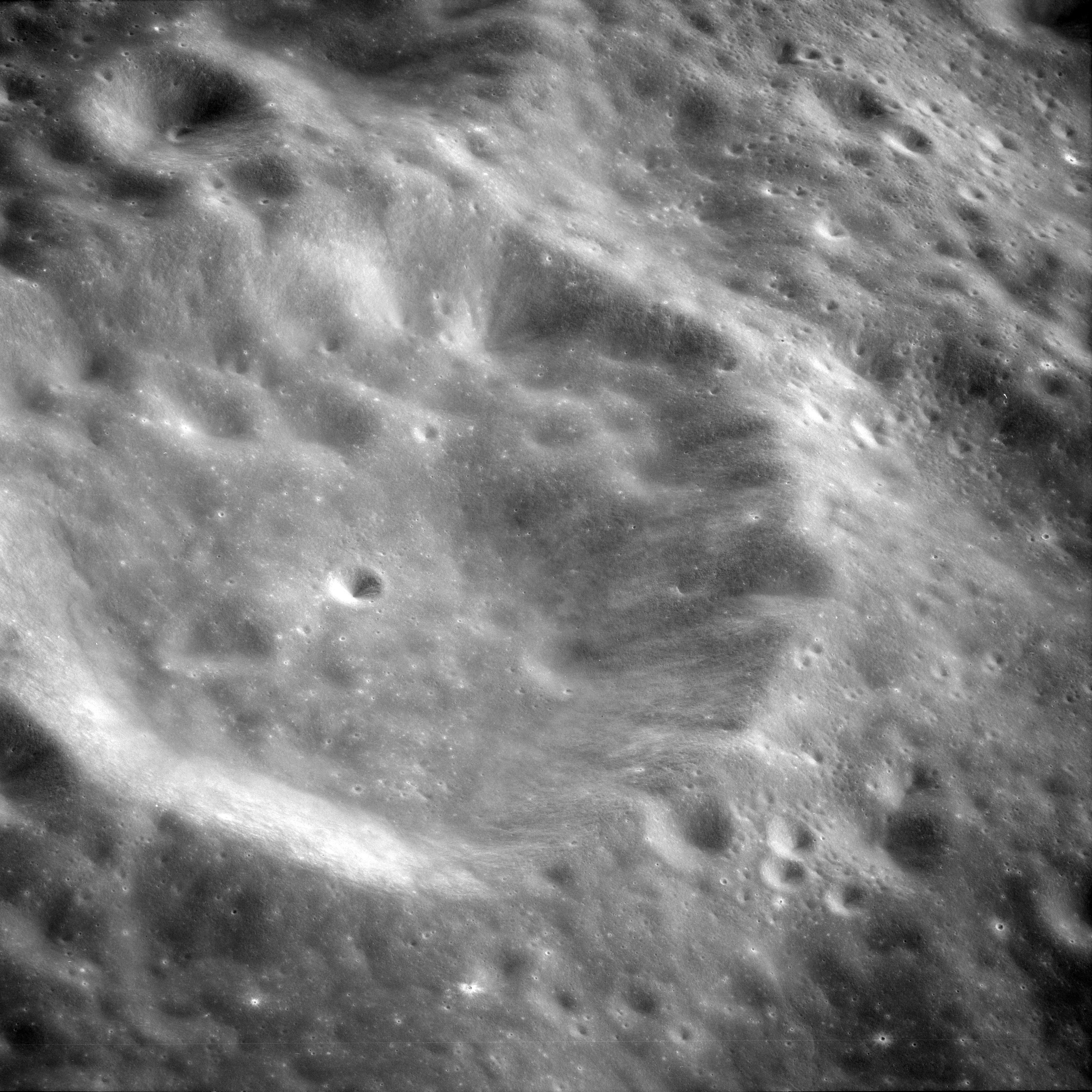 Oblique view of Pannekoek D crater, east of Pannekoek, on the far side of the moon.